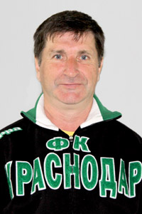 Goryunov Sergei Alexandrovich, a Soviet football player, a Russian football player and coach